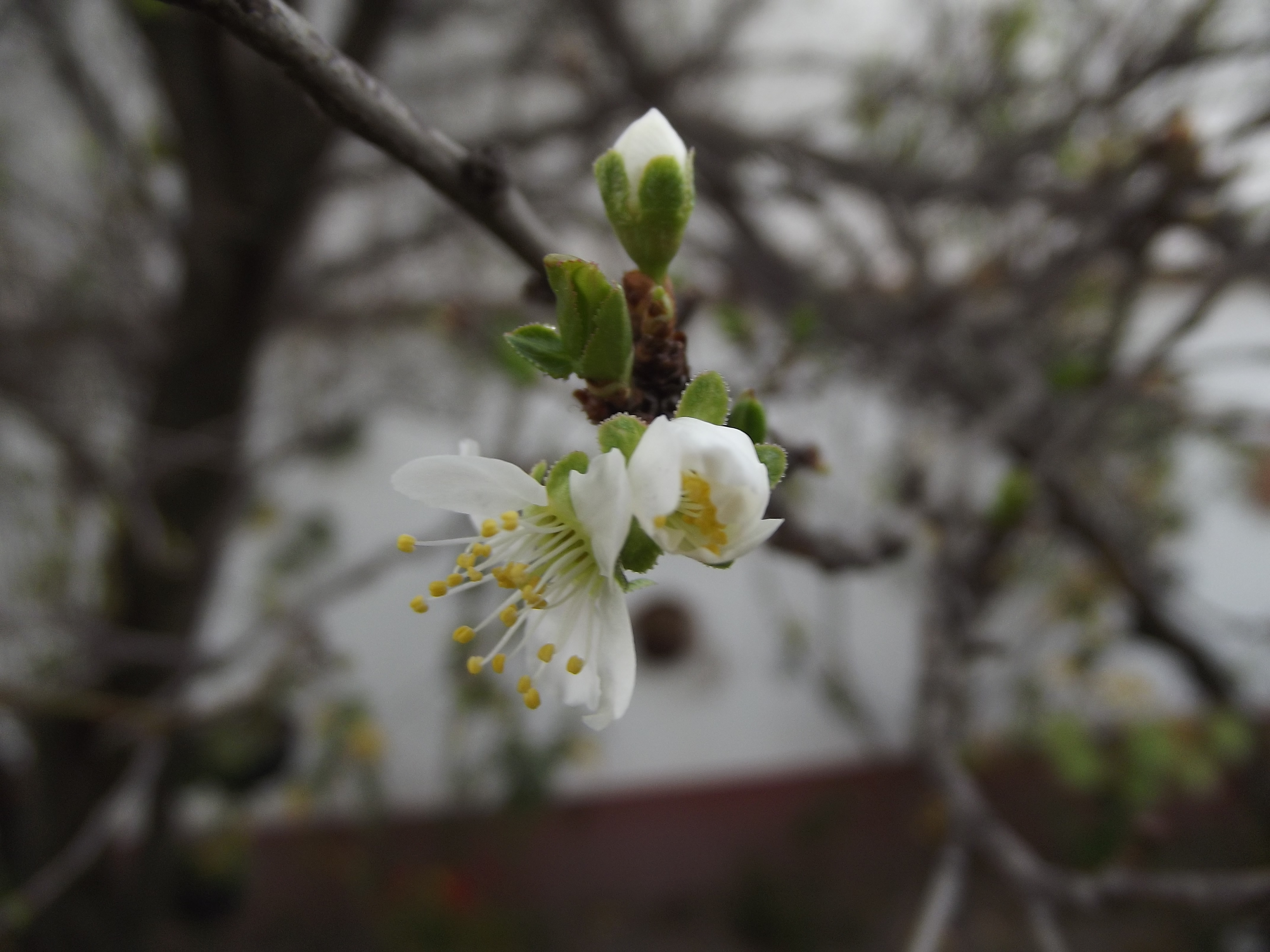 Plum flowers